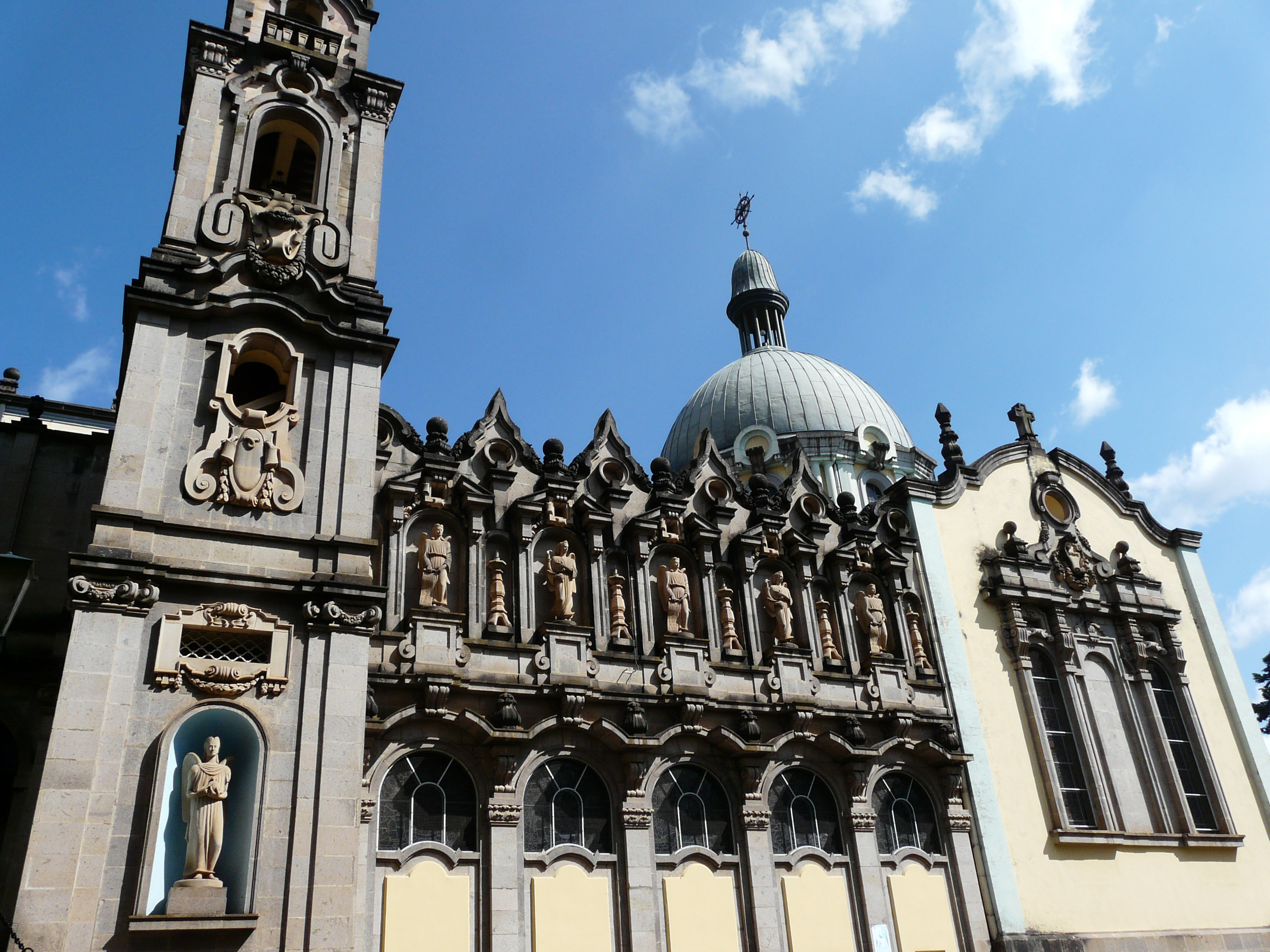 Holy Trinity Cathedral, Addis Abeba, Ethiopia